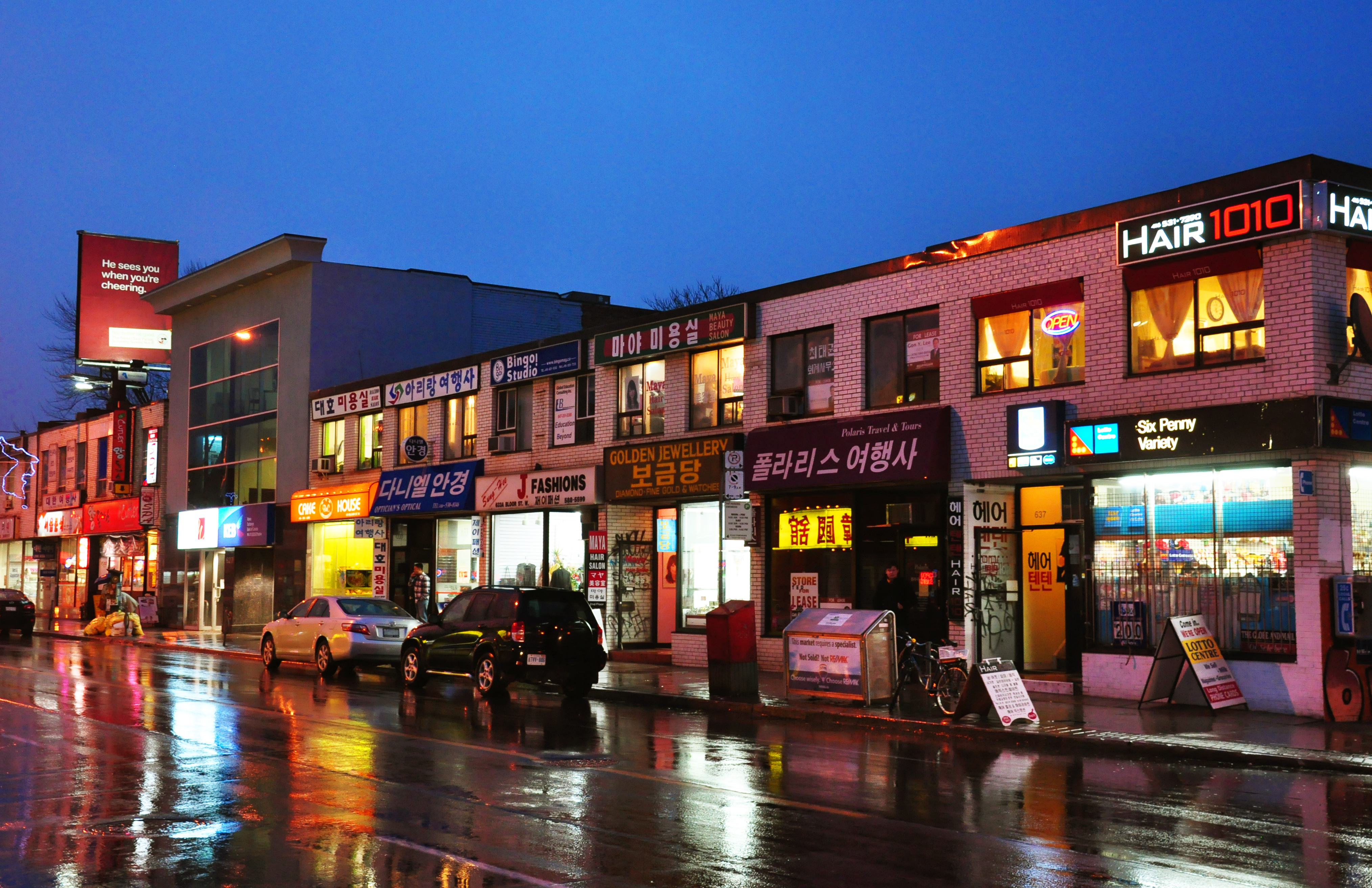 Toronto Koreatown night 2009